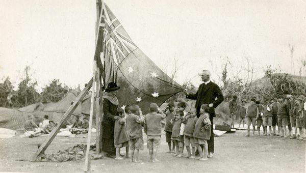 Citation: Cleo A. and Nellie Miller Mann Papers, 1920-2000. Nellie Miller Mann Photographs, 1922-1924. HM1-695, Box 4. Mennonite Church USA Archives - Goshen. Goshen, Indiana.